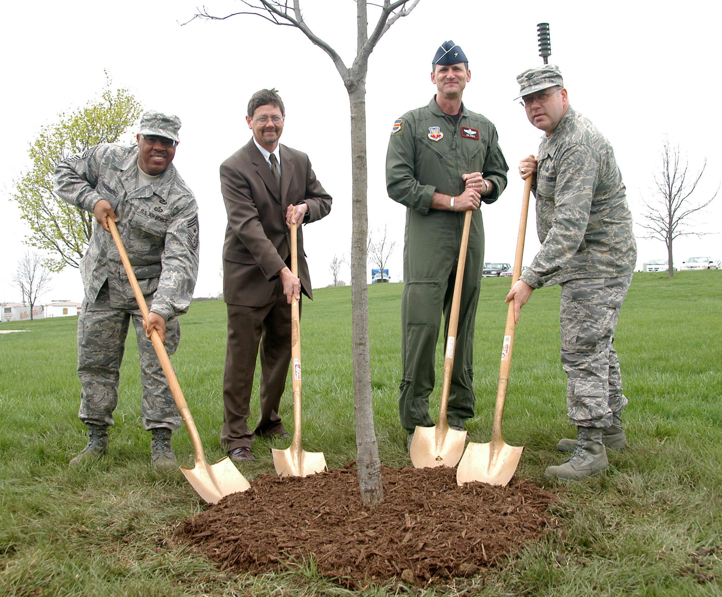 (From left to right) 55th Wing Command Chief Master Sgt. Kenneth Funderburg, Deputy Base Civil Engineer Mark Jacobsen, 55th Wing Commander Brig. Gen. James Jones and 55th Mission Support Group Commander Col. Michael Stinson participate in the annual Arbor Day Tree Planting April 25th here. Offutt has been named Tree City USA for the last 20 years by the Arbor Day Foundation.